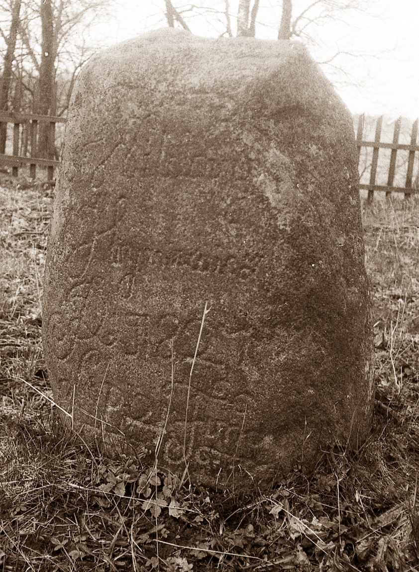 Gargždupis old cemetery, Kretinga district, Lithuania